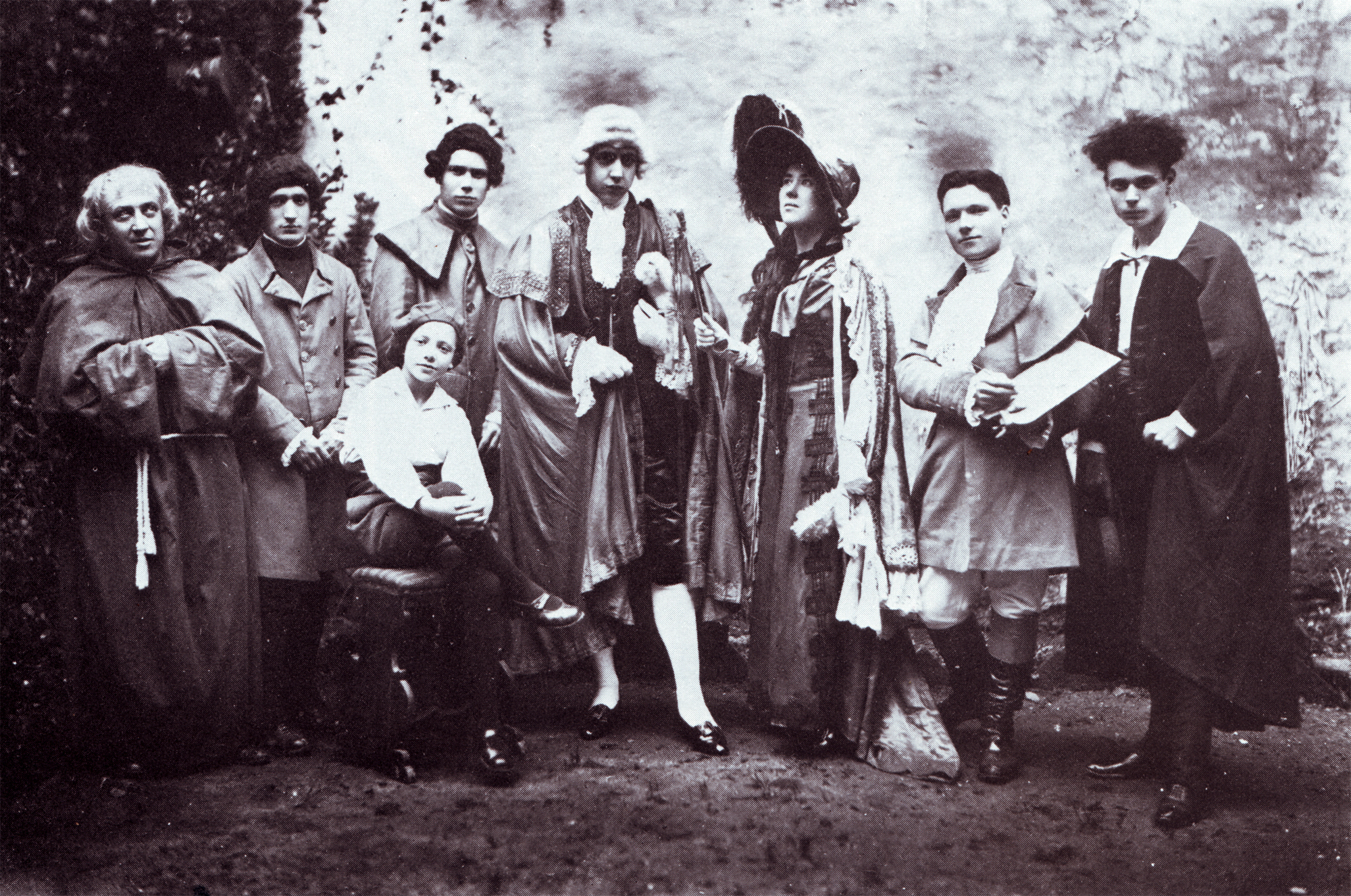 Company of players from Montevarchi